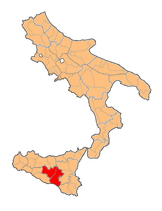 Map of Provincia di Caltanissetta, of Kingdom of the Two Sicilies